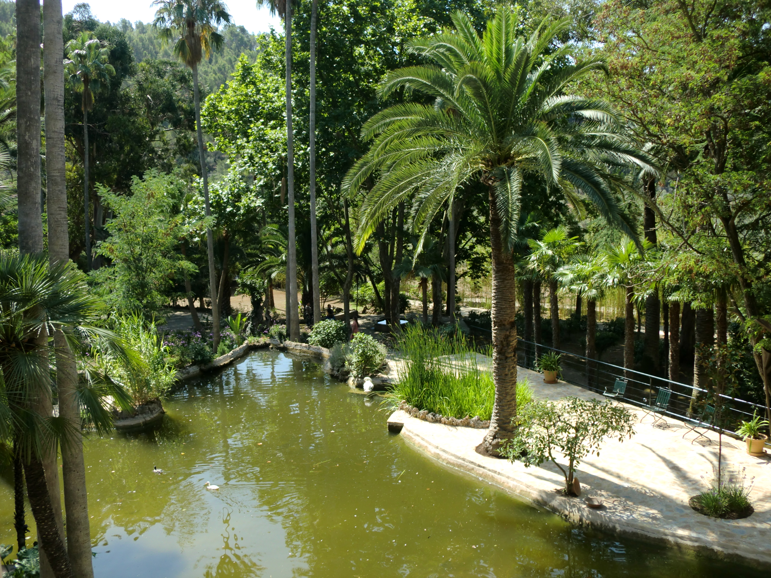 Jardines de Alfàbia in Bunyola (Mallorca)